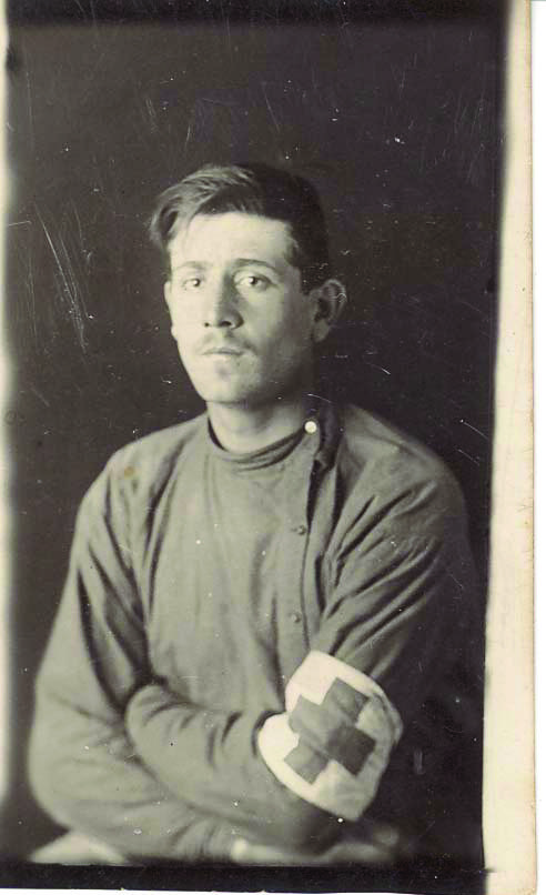 MVAC Volunteer Hristo Popstefanov 1912 - 1913